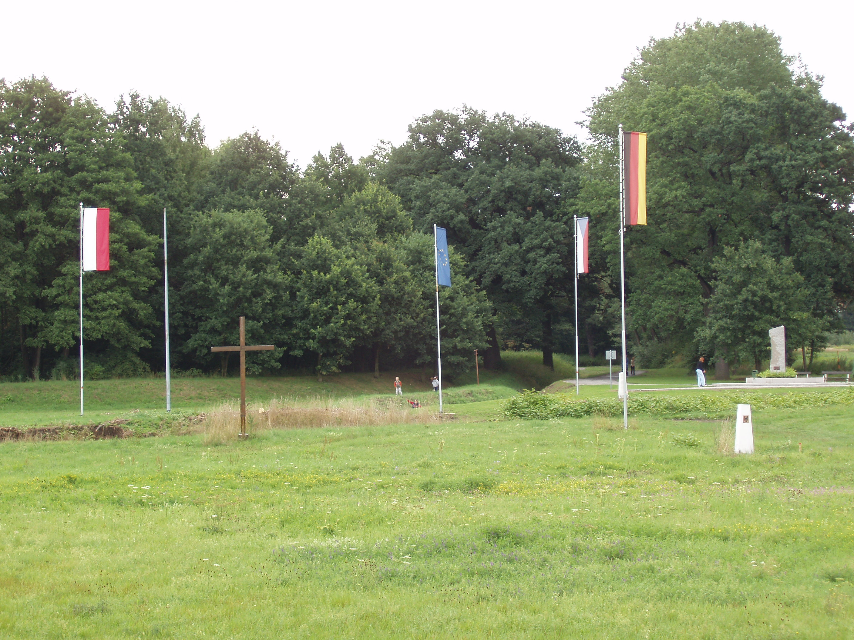 Zittau - tripoint of Germany, Czech Republic, and Poland